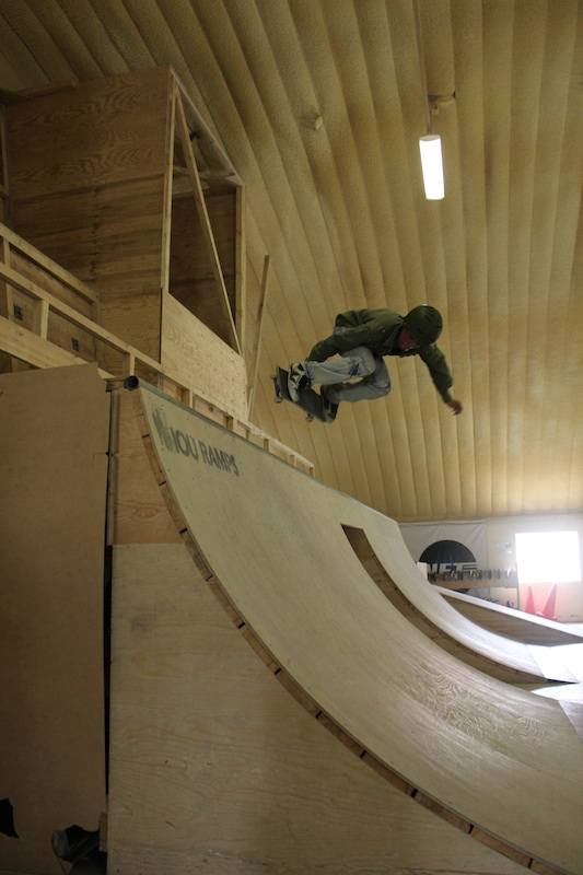 Merza getting air on the big Skateistan quarterpipe